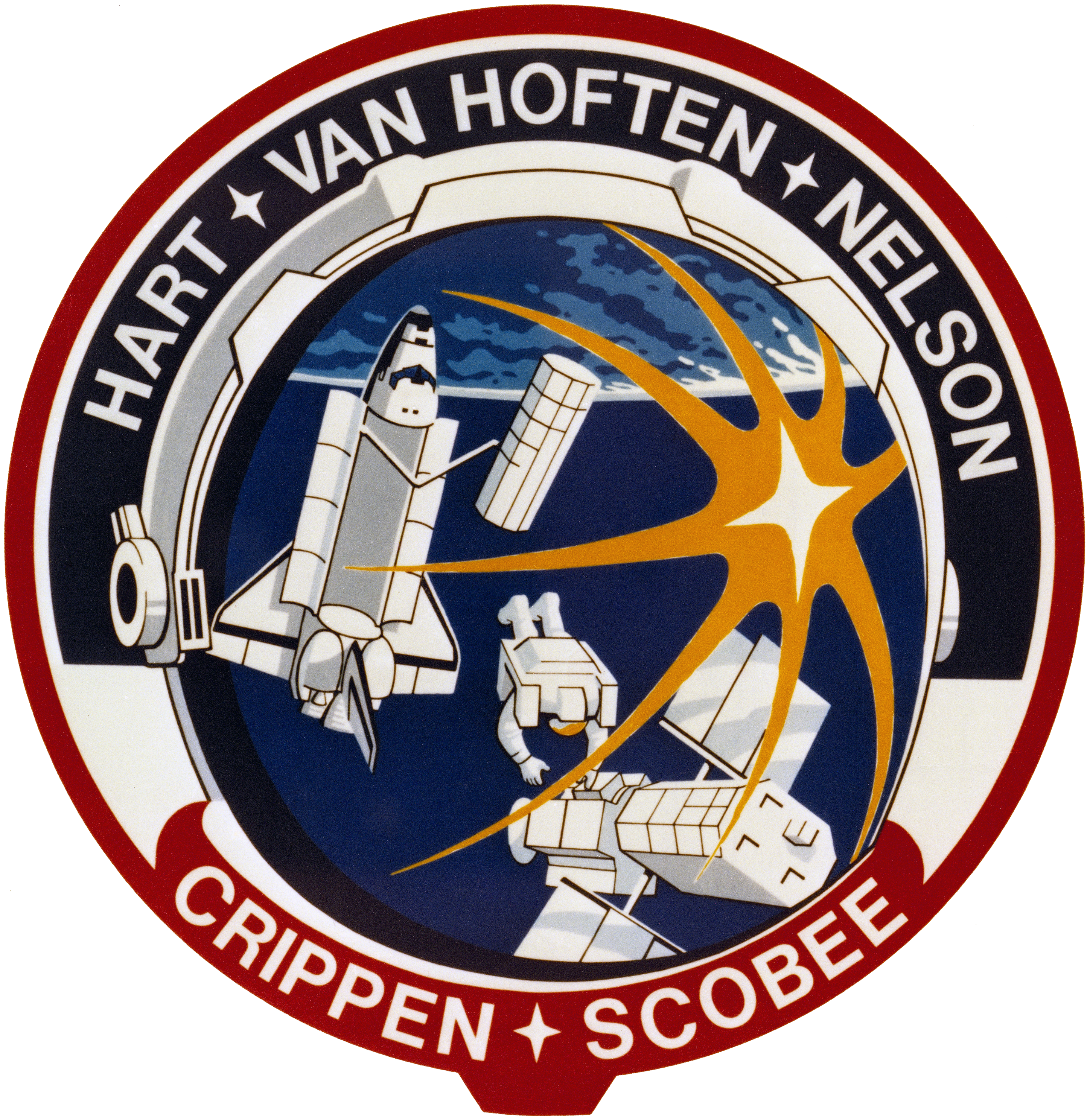 The patch features a helmet visor of an astronaut performing an extravehicular activity. In the visor are reflected the sun's rays, the Challenger and its remote manipulator system (RMS) deploying the long duration exposure facility (LDEF), the Earth and blue sky, and another astronaut working at the damaged Solar Maximum Satellite (SMS). The scene is encircled by the surnames of the crewmembers.